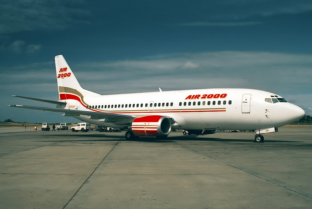 Boeing 737-3Q8 Air 2000 (G-KKUH) at Faro International Airport